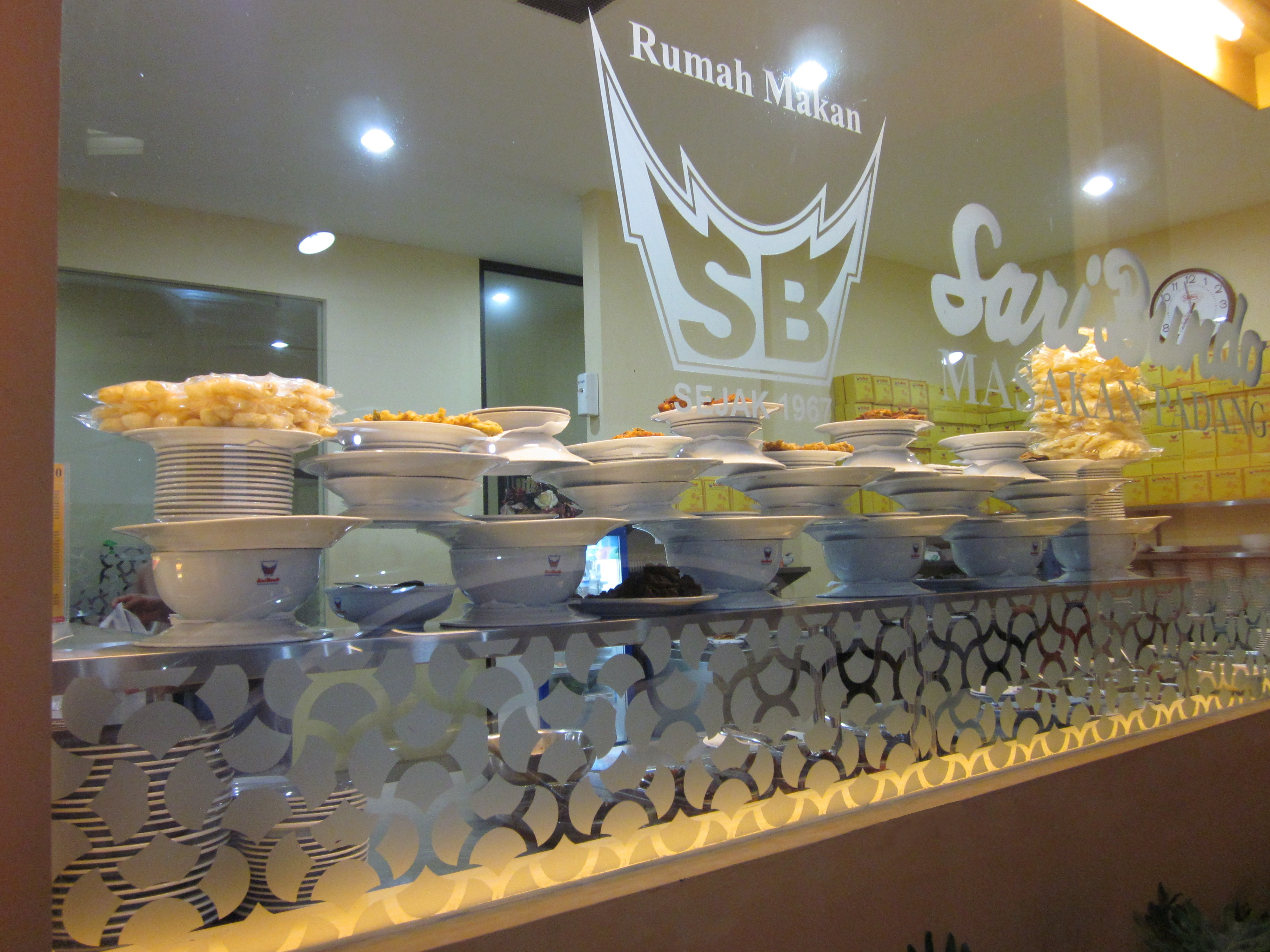 Padang Restaurant Sari Bundo Surakarta